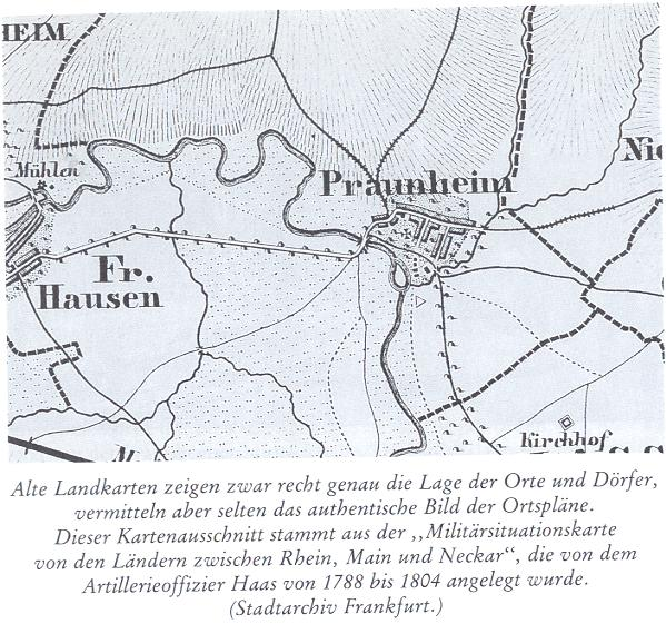 Map from about the year 1788 from Frankfurt Praunheim